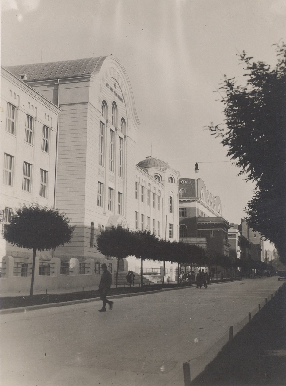 Female Gymnasium in Narodni Front street in Belgrade. The building was projected by architect Milica Krstić.